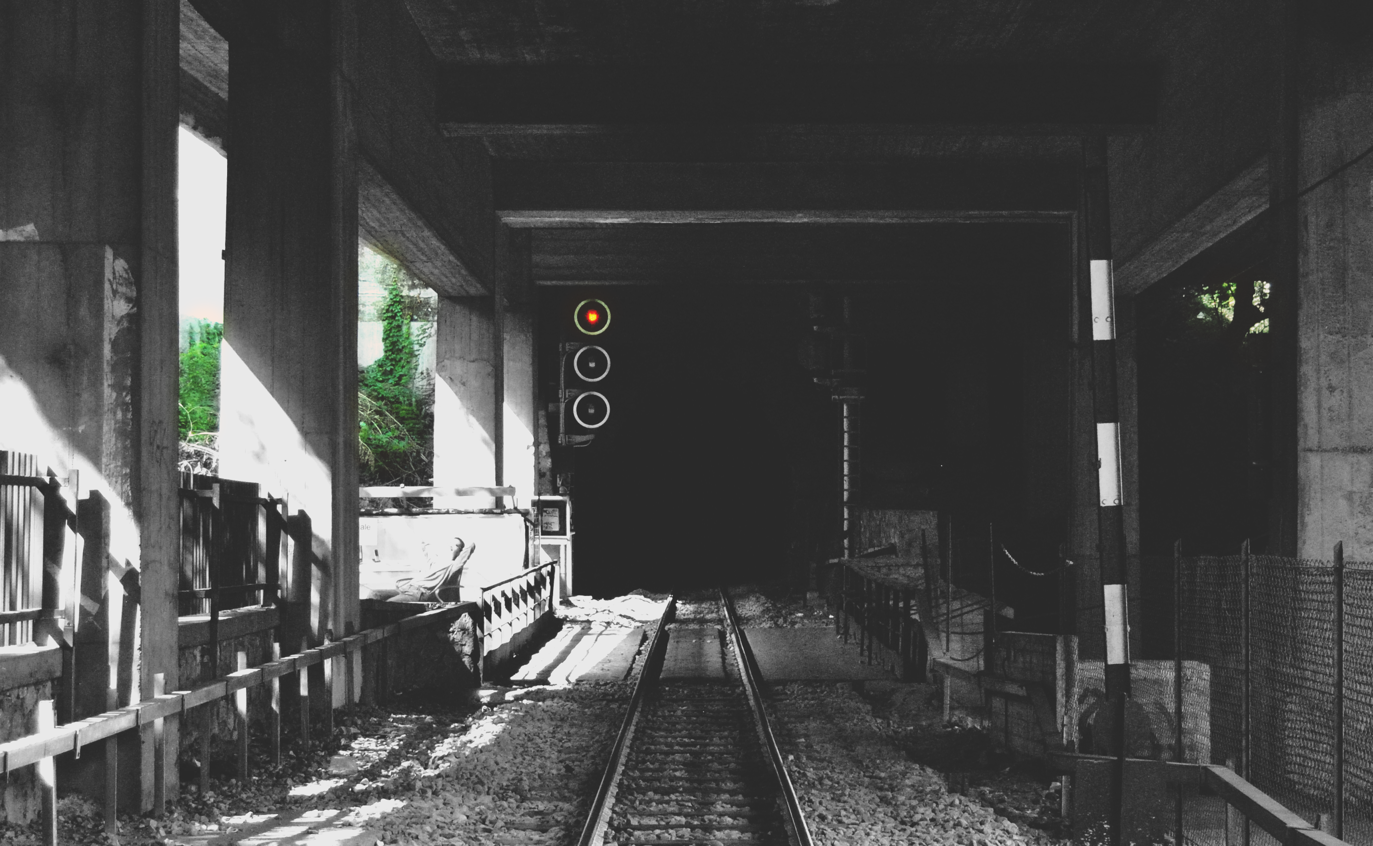 Tratto metropolitana leggera, Catanzaro